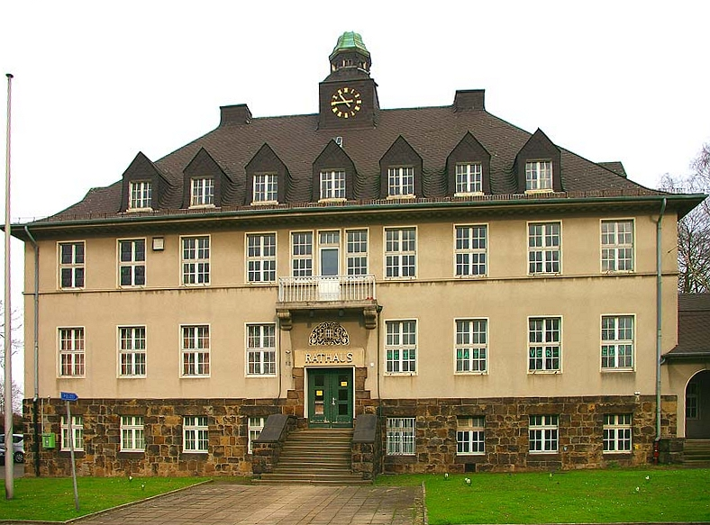 house Wittener Straße 2–4 in Witten